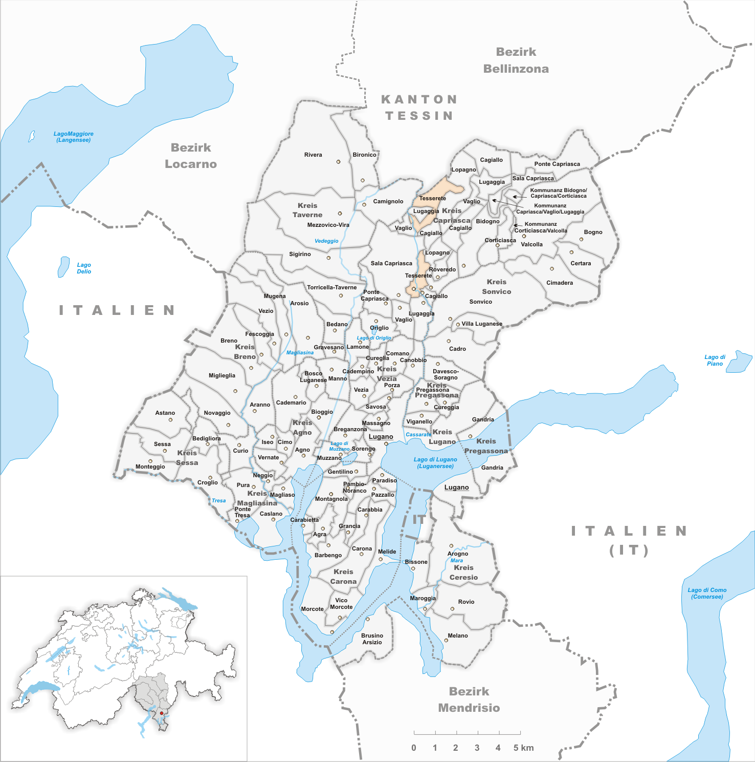 Municipality Tesserete Artist: Tschubby